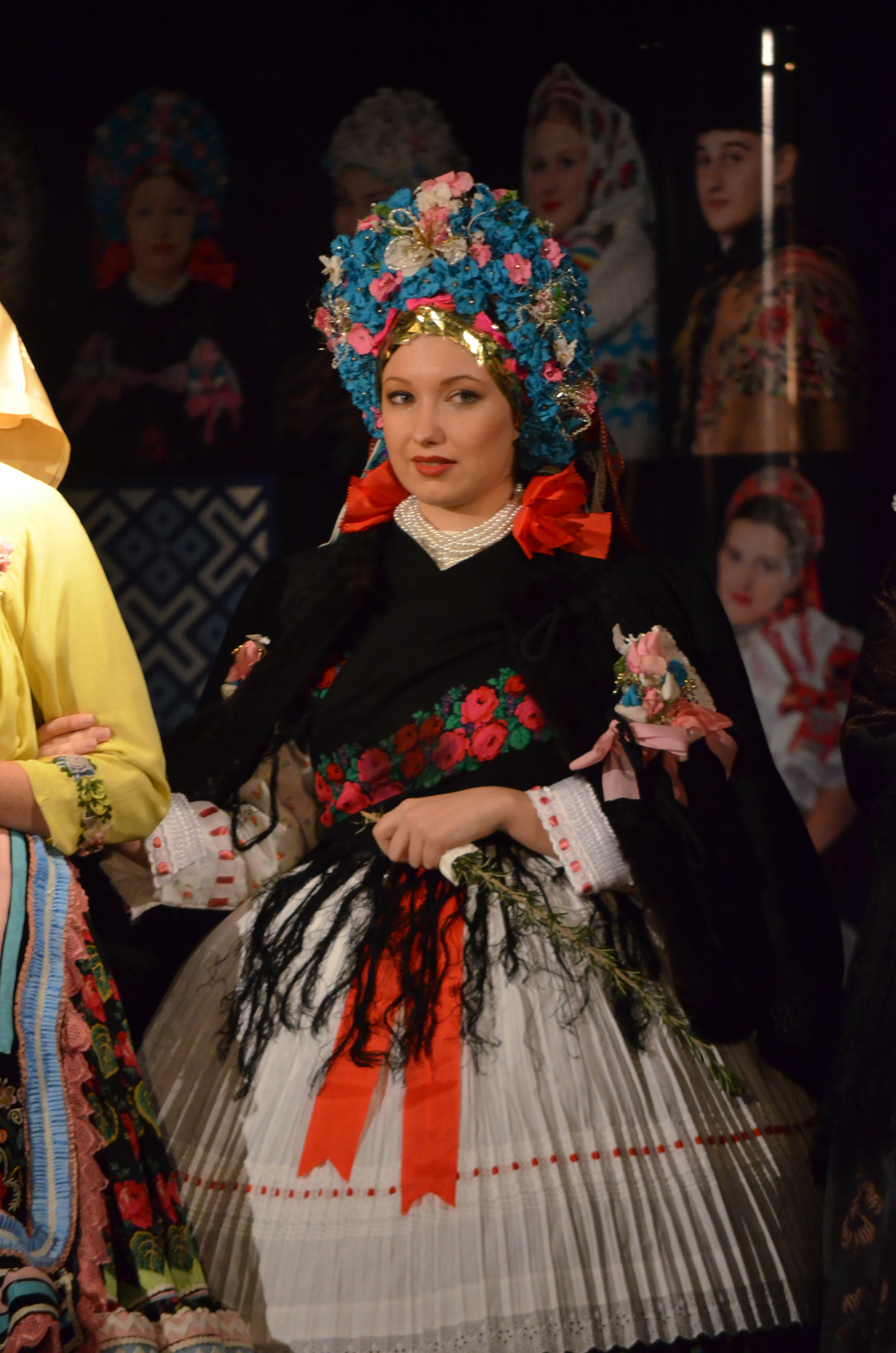 Girl in Slovak Folk Wedding Costume from Stara Pazova